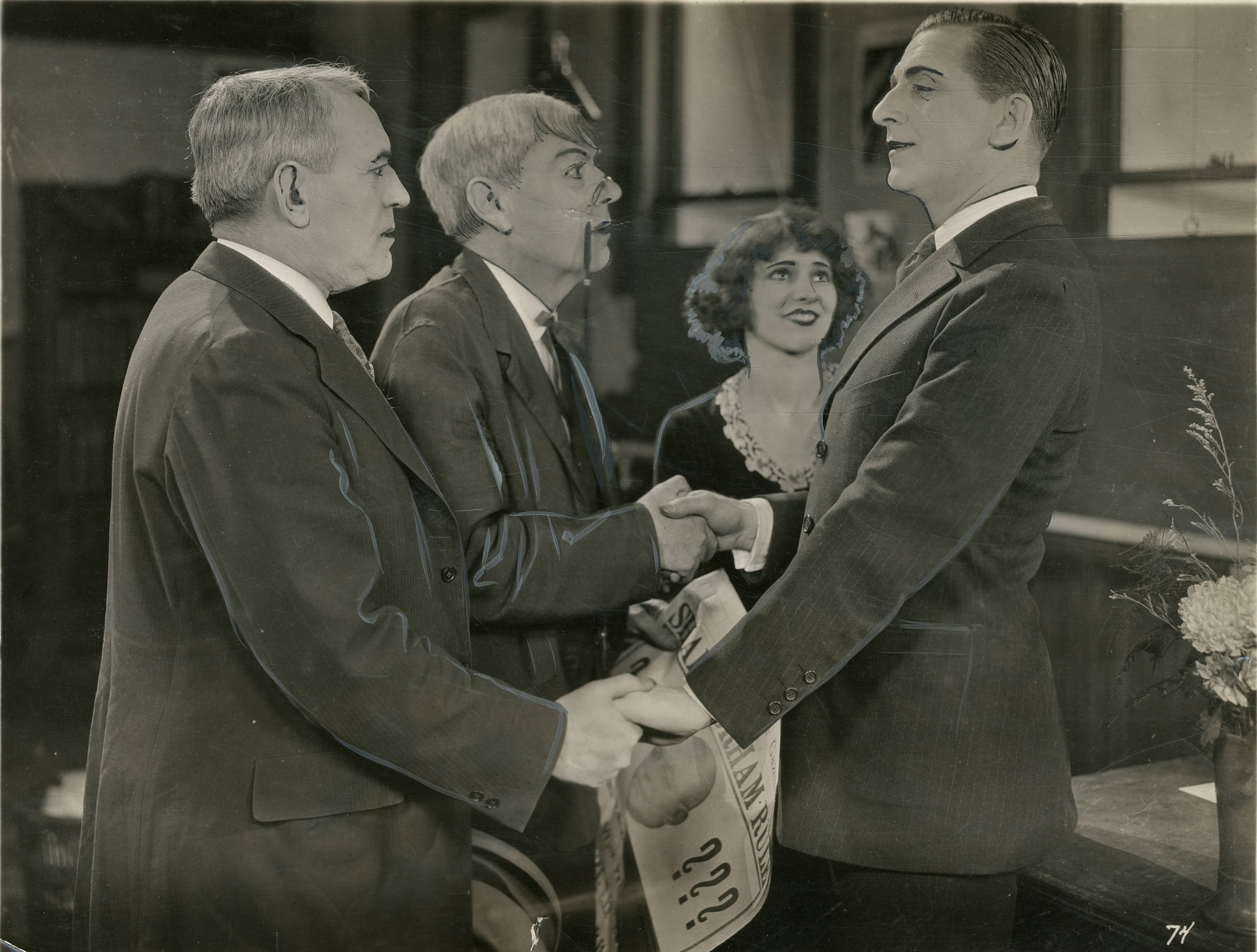 Still from the American comedy film A Front Page Story (1922). Subjects: motion pictures, actresses, actors